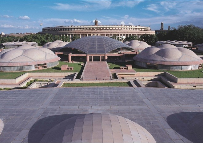 Parliament Library with Sansad Bhawan in background